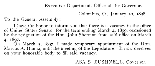 Excerpt from the Journal of the [Ohio] House of Representatives, showing a message from Governor Asa Bushnell, advising them of a vacancy in the state's Senate representation.